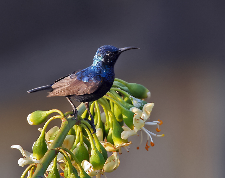 Purple Sunbird( (Nectarinia asiatica) in Kolkata, West Bengal, India.